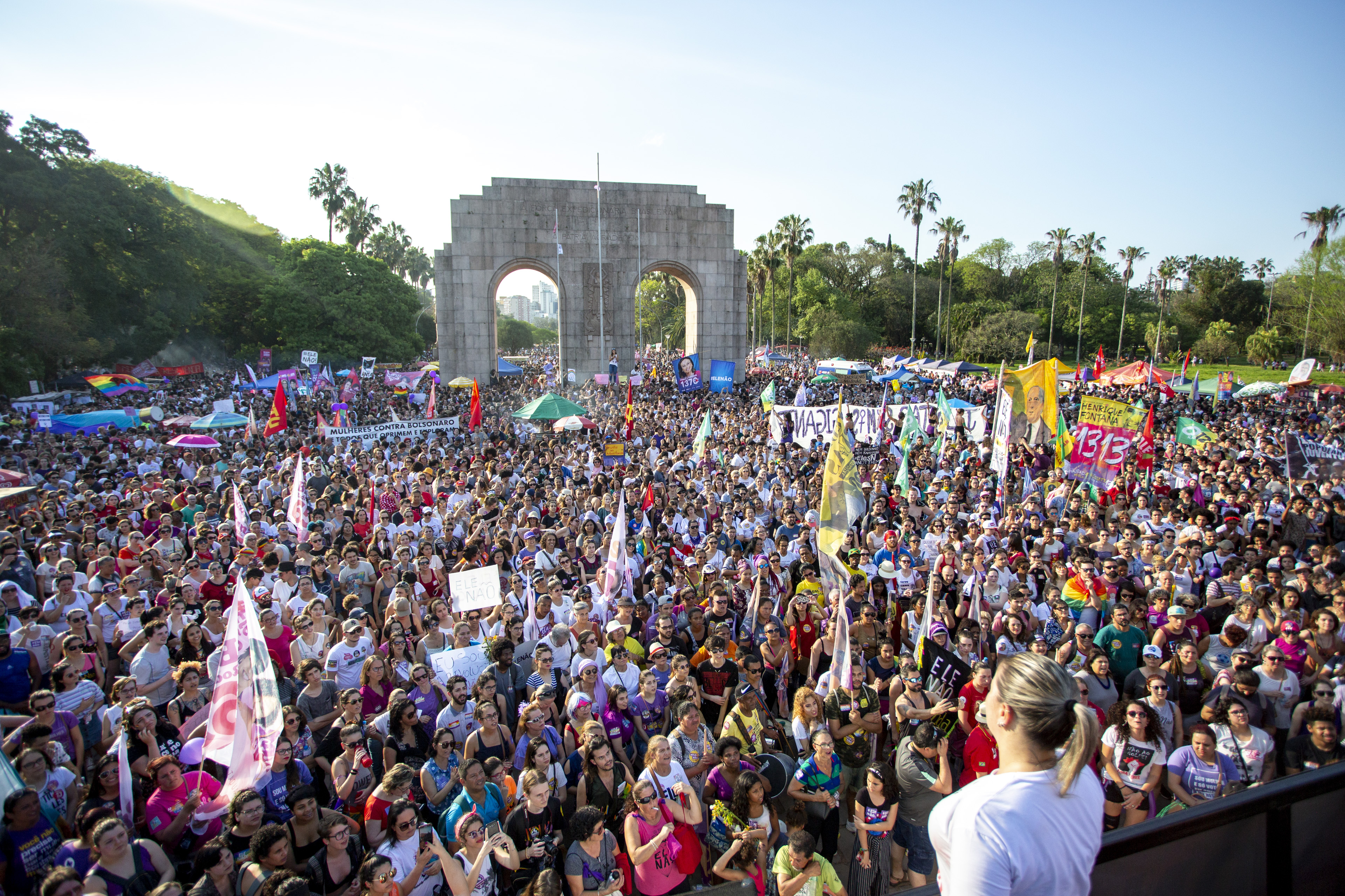 Demonstration against presidential candidate Jair Bolsonaro in Porto Alegre, Brazil. 29 September 2018. By Caco Argemi CPERS / Sindicato